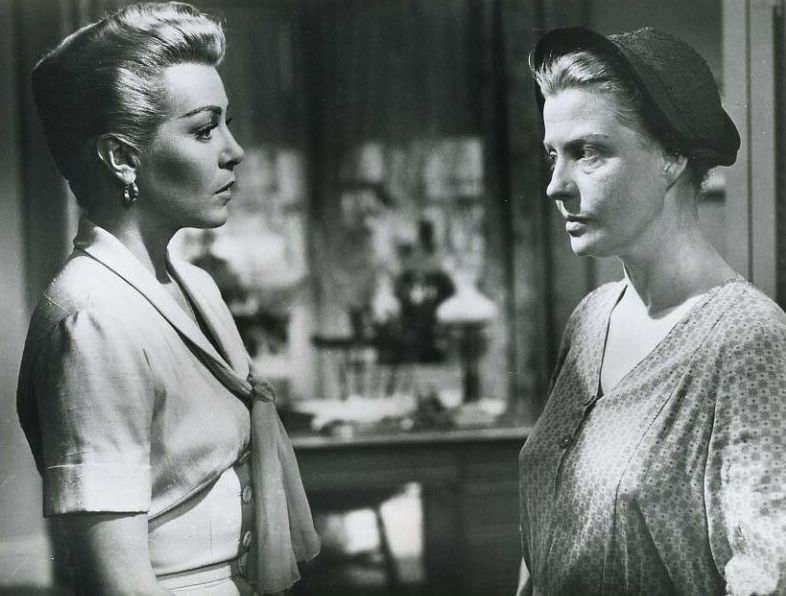 Lana Turner and Betty Field in Peyton Place (1957) still promoting its 1970 television airing.